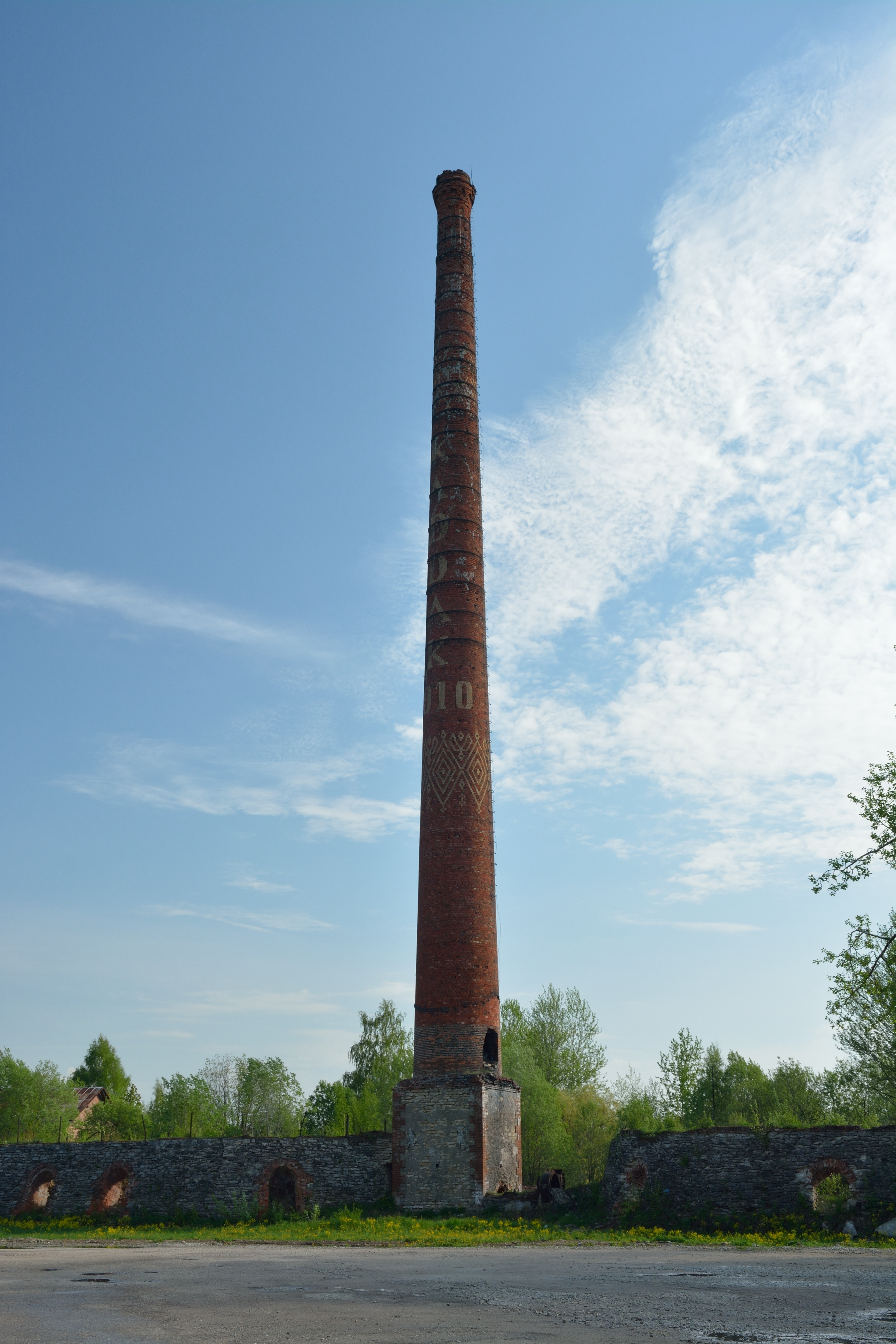 Old chimney of the Rakke lime factory, built in 1910